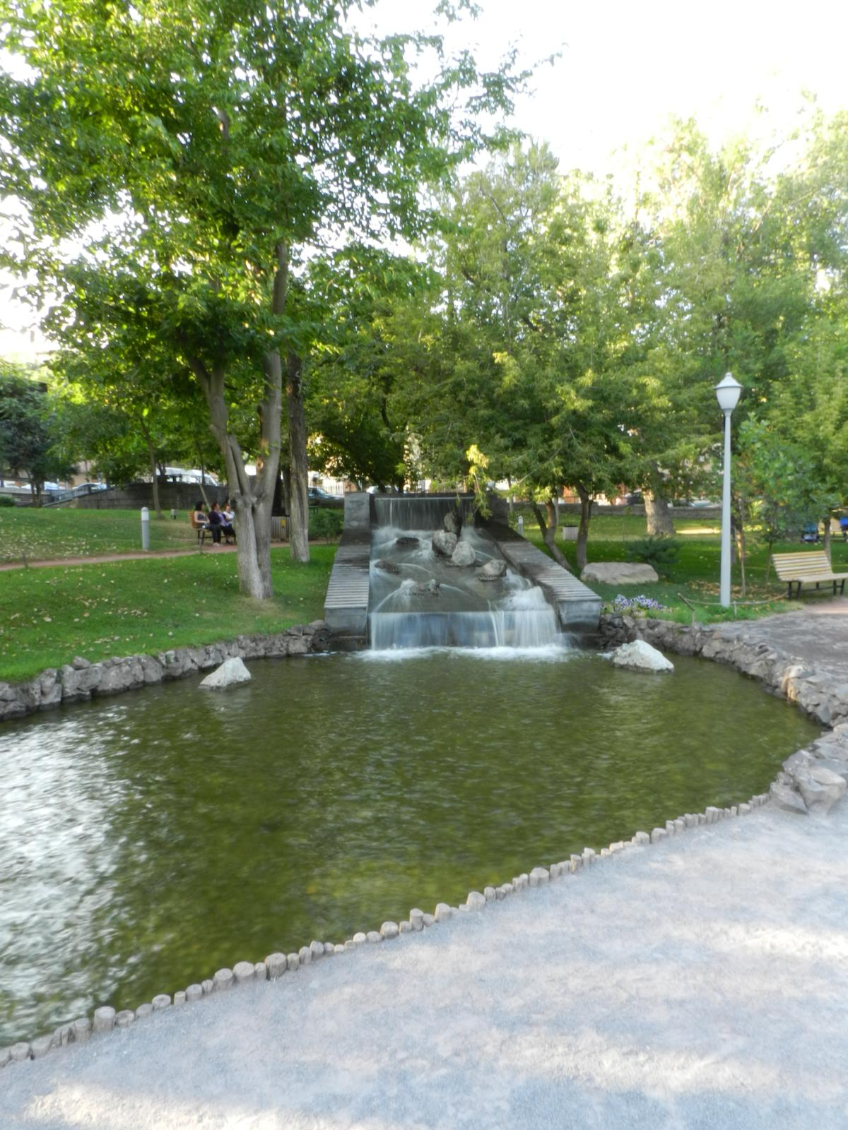 Lovers' Park, Yerevan, Armenia